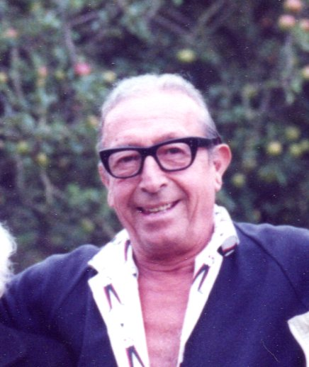 Photograph of the painter François Lanzi, taken in Chiddingfold Surrey